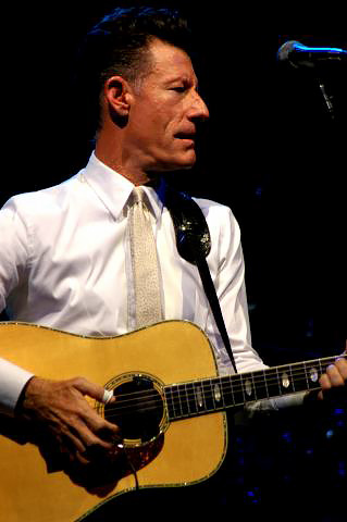 Lyle Lovett in concert in Austin Texas, at the Austin City Limits Music Festival 2005. Photo by Steve Hopson. See more photos at: . Use of this photo requires attribution. Please credit, Steve Hopson Photography, .